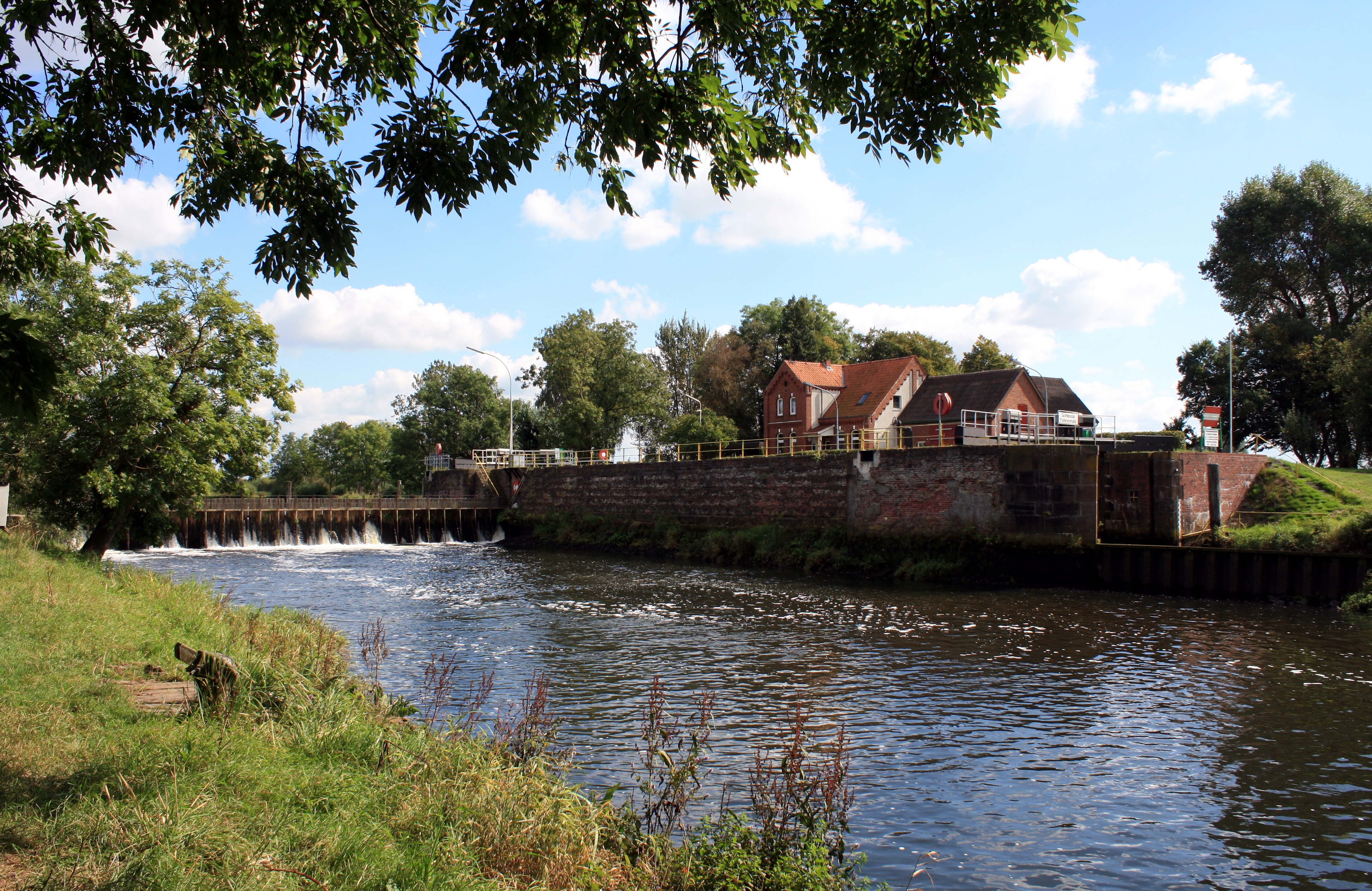 Watergate and Needle dam in the Ilmenaukanal, Fahrenholz, Samtgemeinde Elbmarsch, Landkreis Harburg, Lower Saxony. This is a photograph of an architectural monument.It is on the list of cultural monuments of Drage